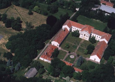 Nagyláng (Soponya), Palace, Hungary, aerial photography